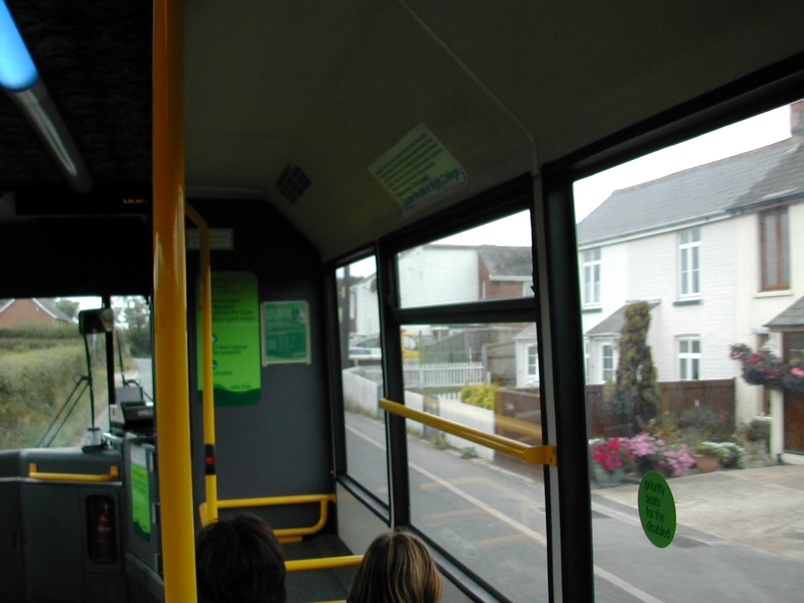 The centre of the hamlet of Gaskins, Isle of Wight, seen from the number 14 bus, run by Southern Vectis. It is one of Southern Vectis' fleet of Dennis Dart SLF/Plaxton Pointer 2 MPD. It is one of the 54-registered examples that were new to them, as evidenced by the lack of seats behind the driver's bulkhead.